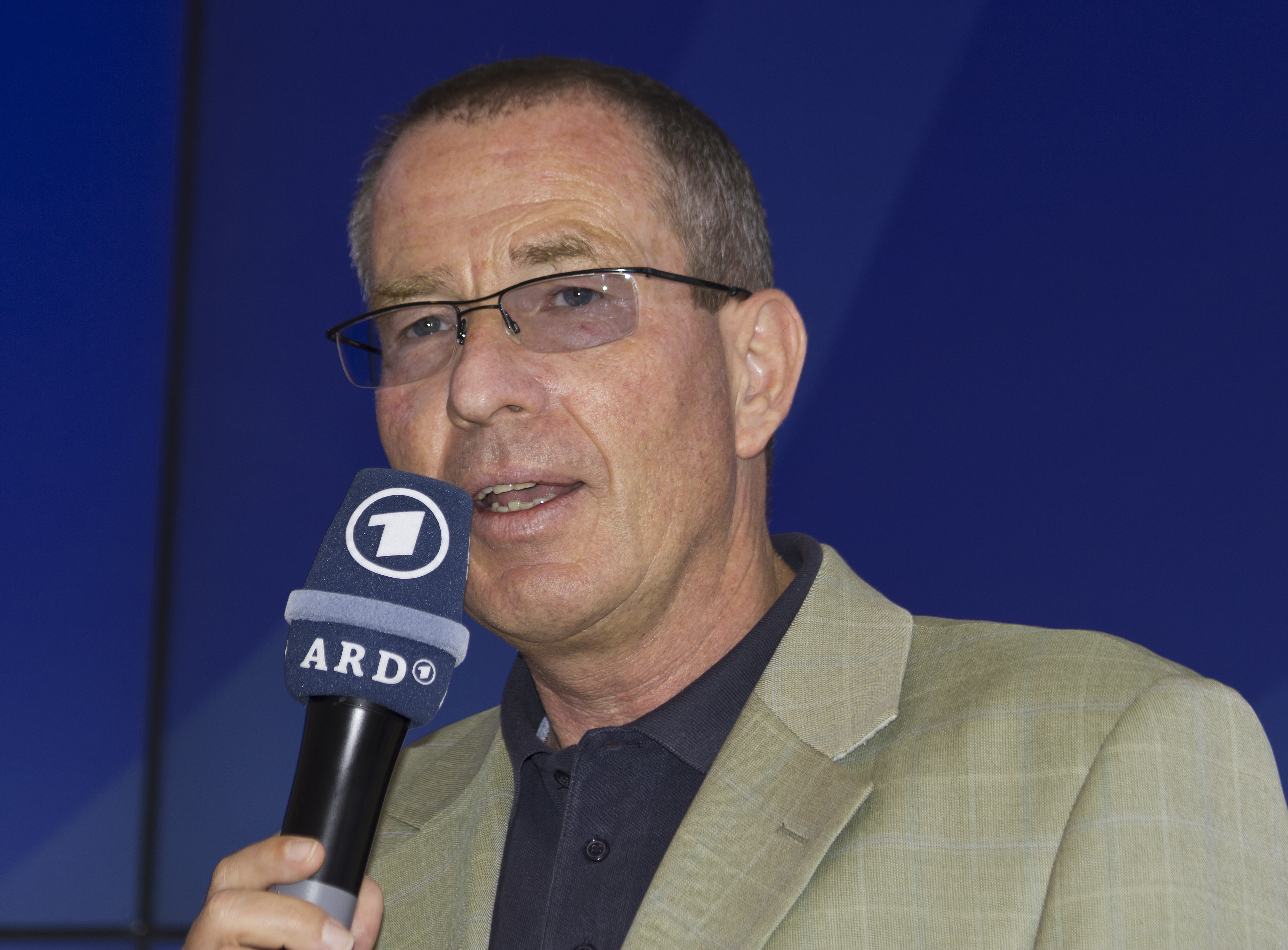 Thomas Baumann, a TV journalist from Germany